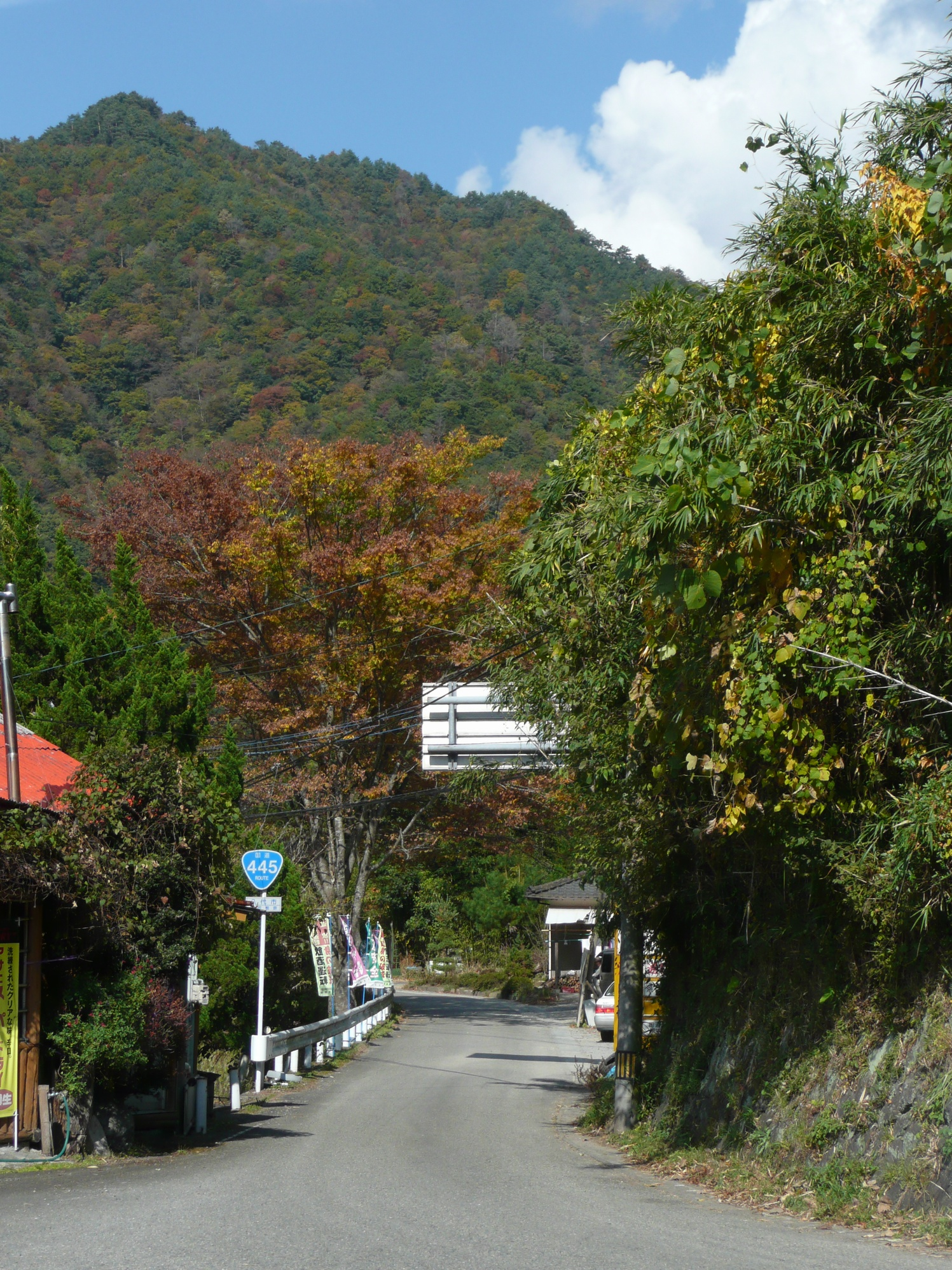 National Route 445 - Shiibaru, Izumi, Yatsushiro City, Kumamoto Prefecture, Japan.